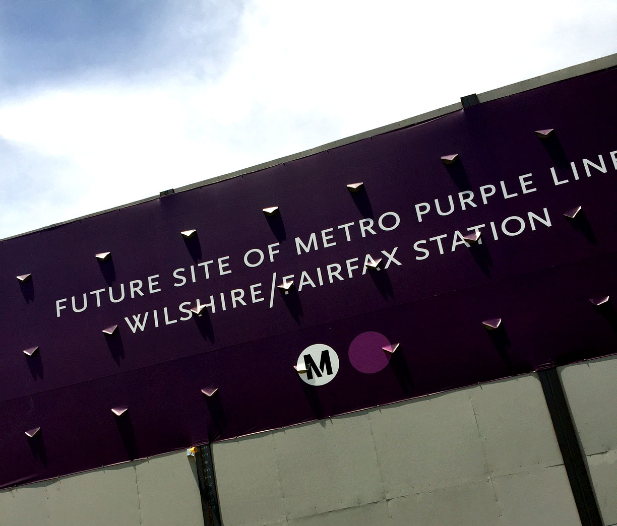 Signage announcing future site of Purple Line (Los Angeles Metro) in Miracle Mile.